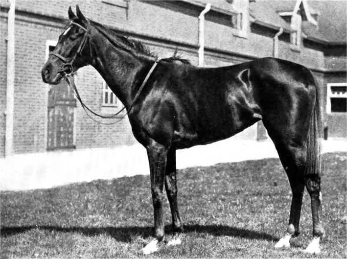 Diadem, winner of the 1917 1000 Guineas.